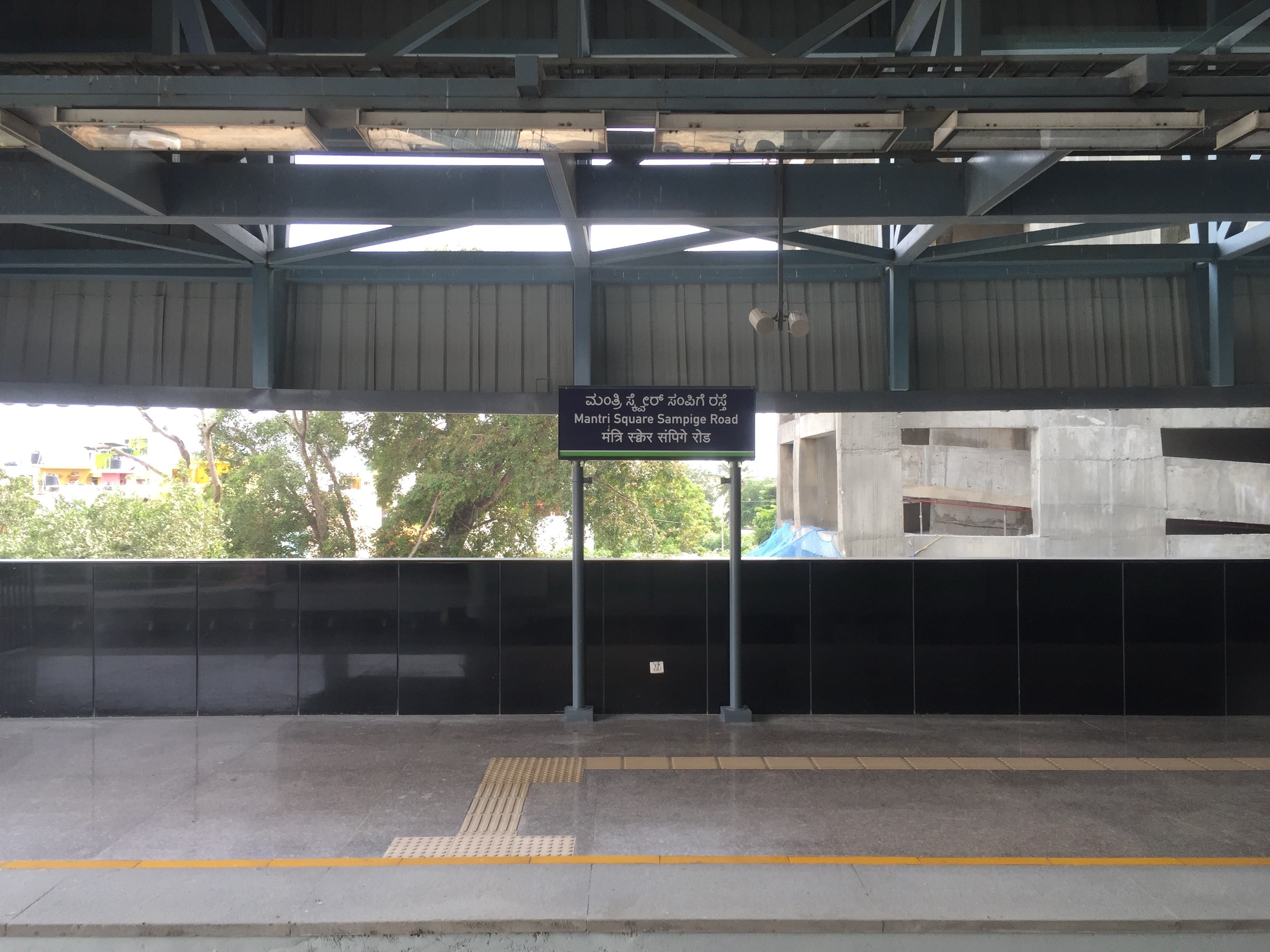 Making a stop at the Mantri Square Sampige Road metro station of Namma Metro in Bengaluru, India.